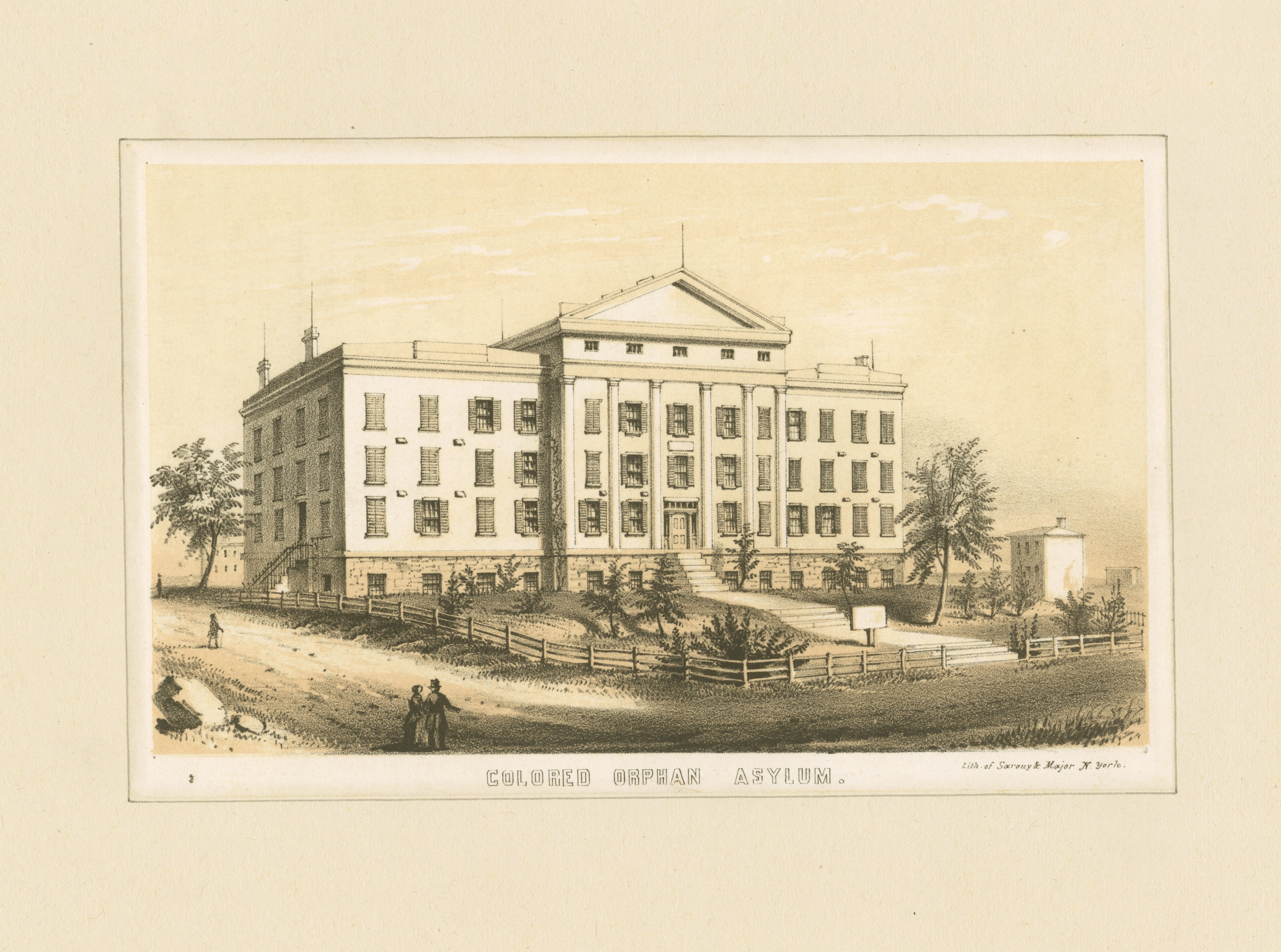 Title from Calendar of Emmet Collection. EM11719 Statement of responsibility : Sarony & Major